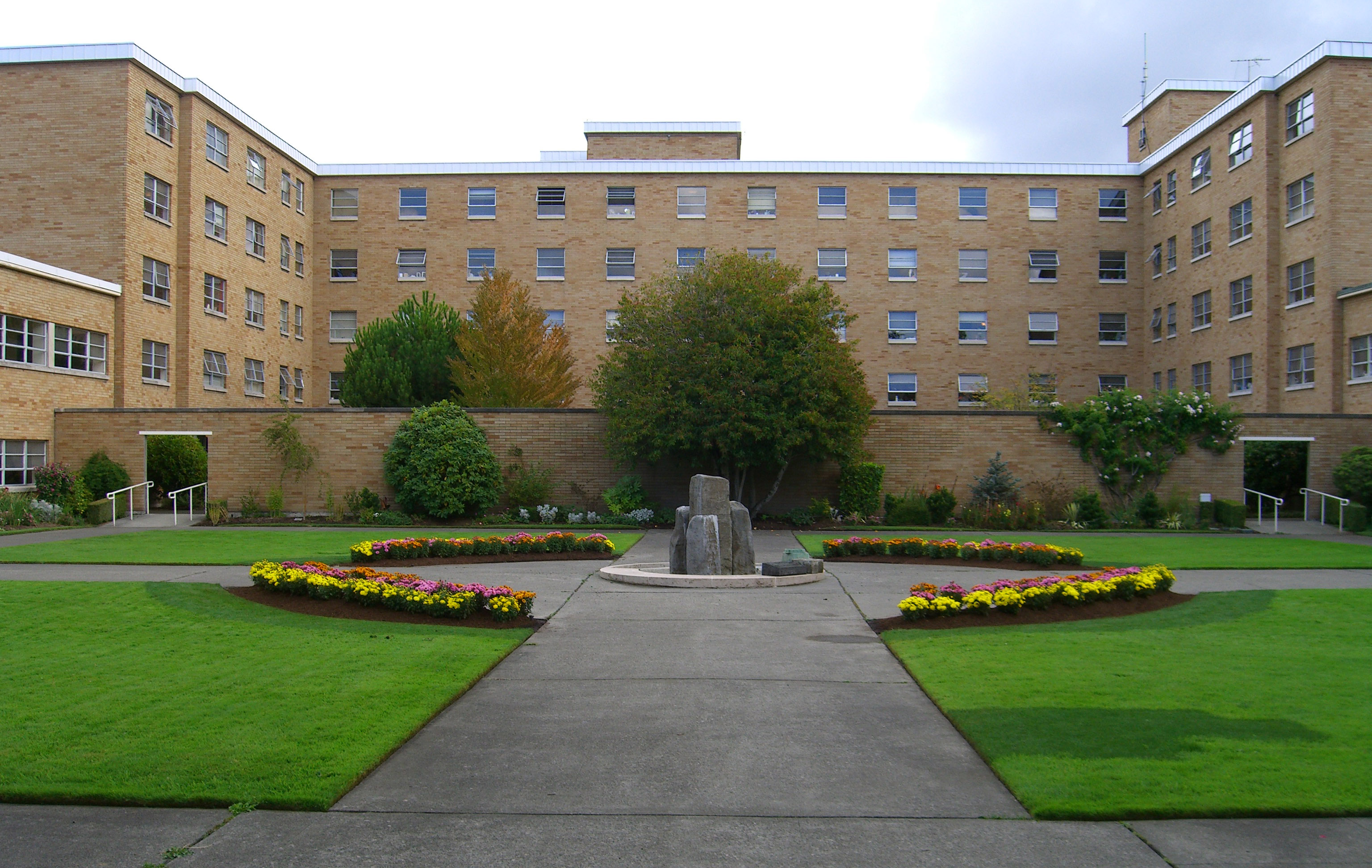 The main entrance to Bastyr University